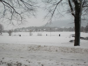 winter in snow